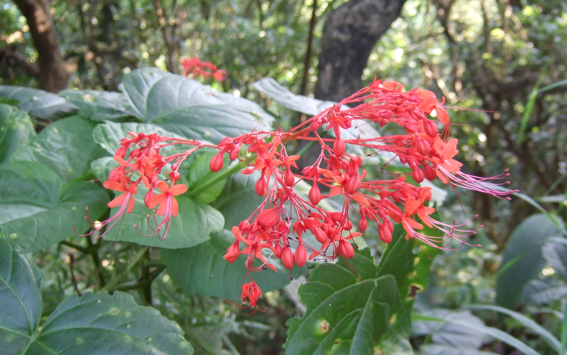 Clerodendrum kaempferi, photo taken in Taiwan. Clerodendrum kaempferi is a synonym of Clerodendrum japonicum. Reference